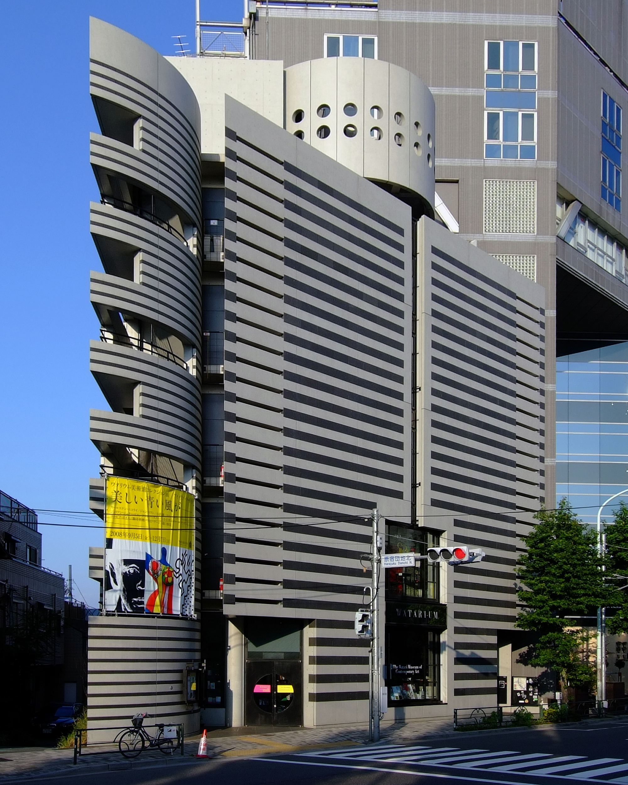 Watari Museum of Contemporary Art, at Shibuya-ku Tokyo Japan, design by Mario Botta in 1990.